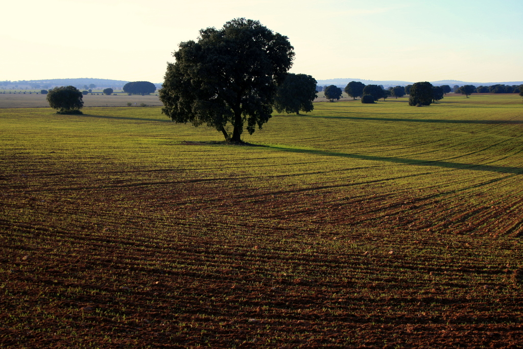 Nice landscape of the fields in La Mancha.